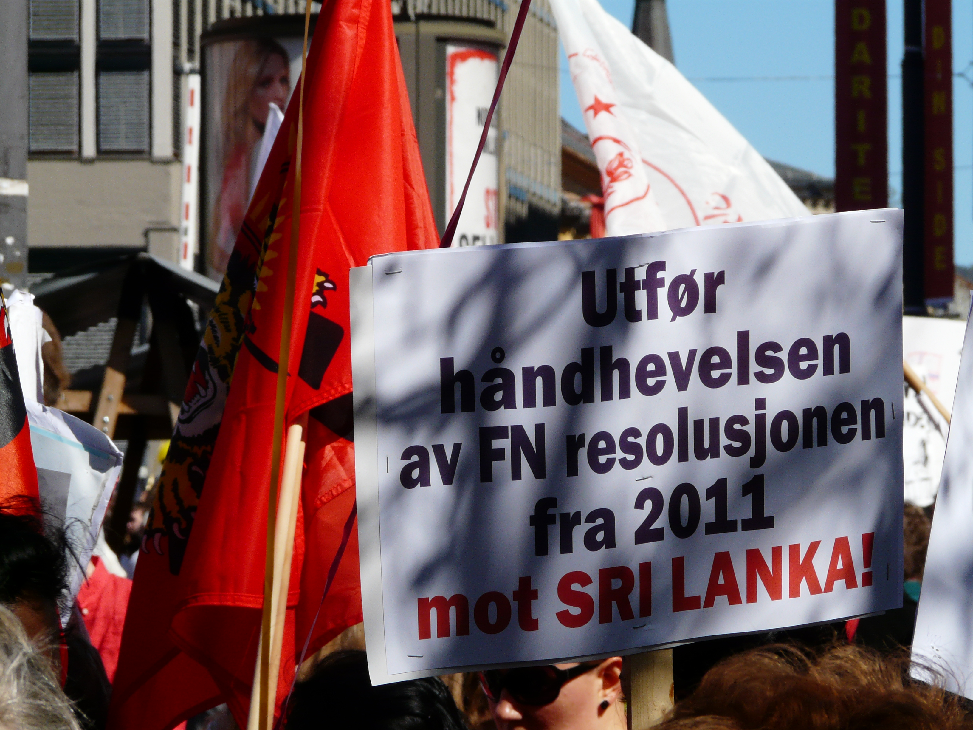 Tamil Tigers banner in the Oslo International Workers' Day parade, 2012.